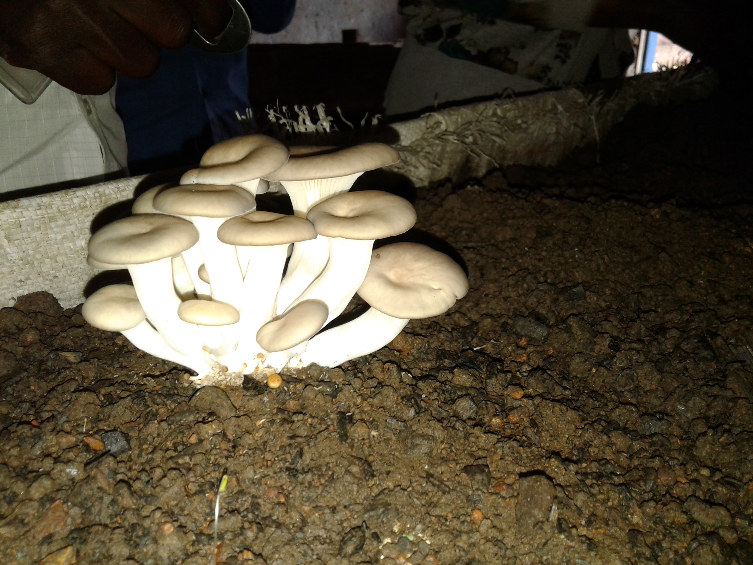 mushrooms grown in Kabale.